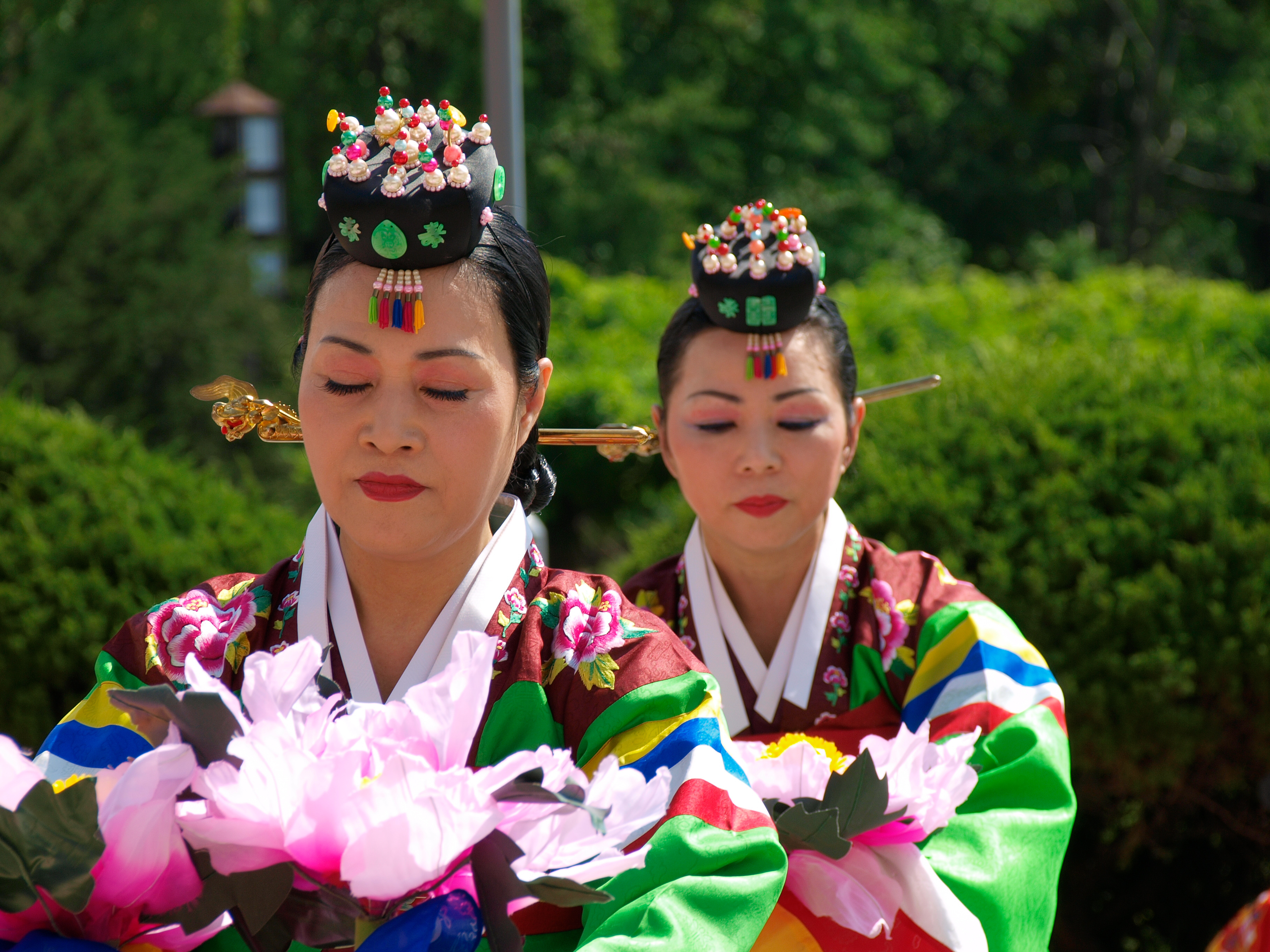 Jinju pogurakmuk is a variety of pogurakmu, literally meaning ball-throwing dance which has been handed down to Jinju, South Korea. Pogurakmu is one of Korean royal court dance. The performance was held in Sep. 10th, 2008 at Deoksugung, Seoul, South Korea. Further readings in Korean.[1][2]